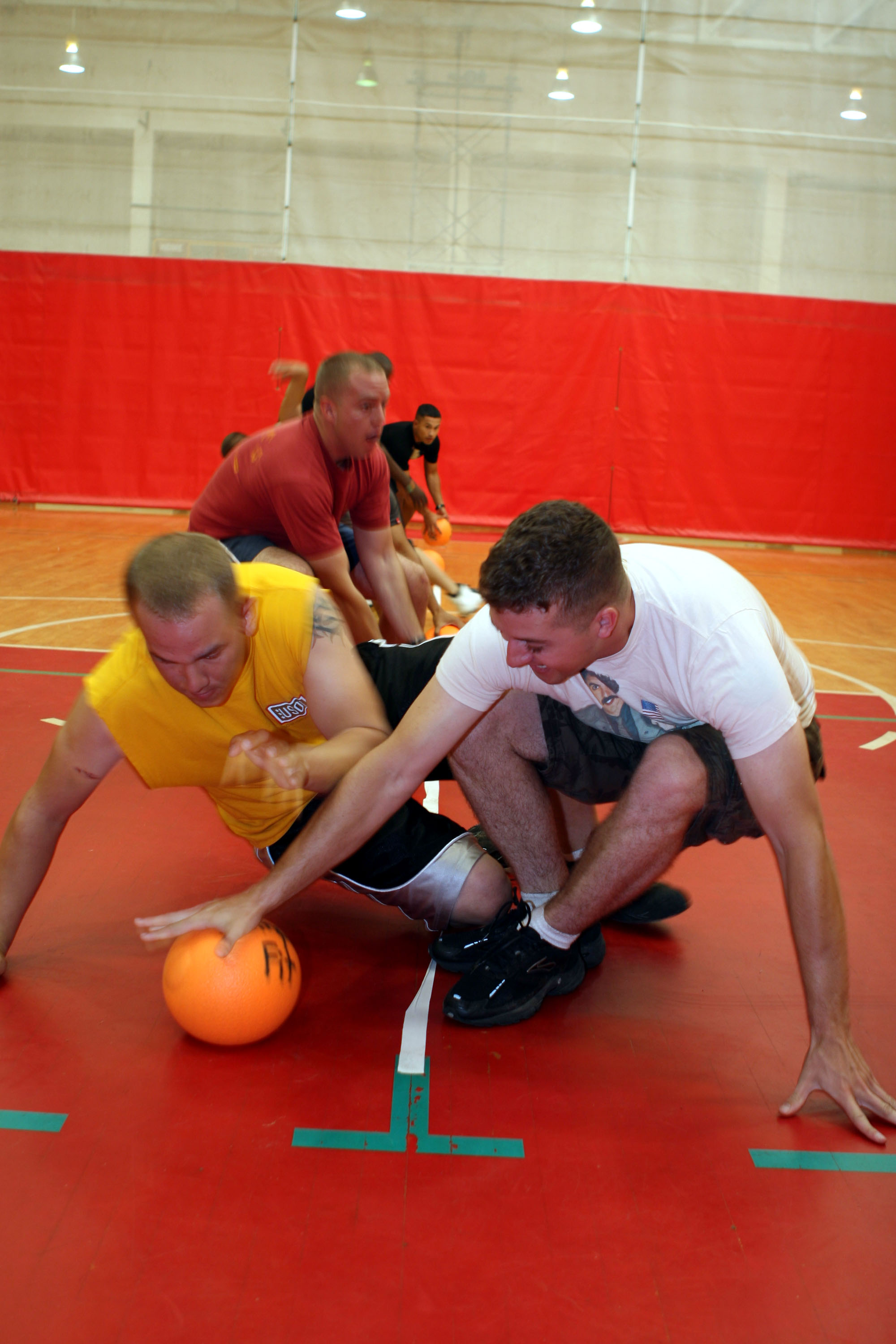 The Marine Corps Air Facilities Renegades and Installation Personnel Administration Center Red Balls of Fury players face off at the center line, struggling to take control of as many balls as they could, during a 101 Days of Summer dodge-ball tournament at the Semper Fit Center Aug. 16.